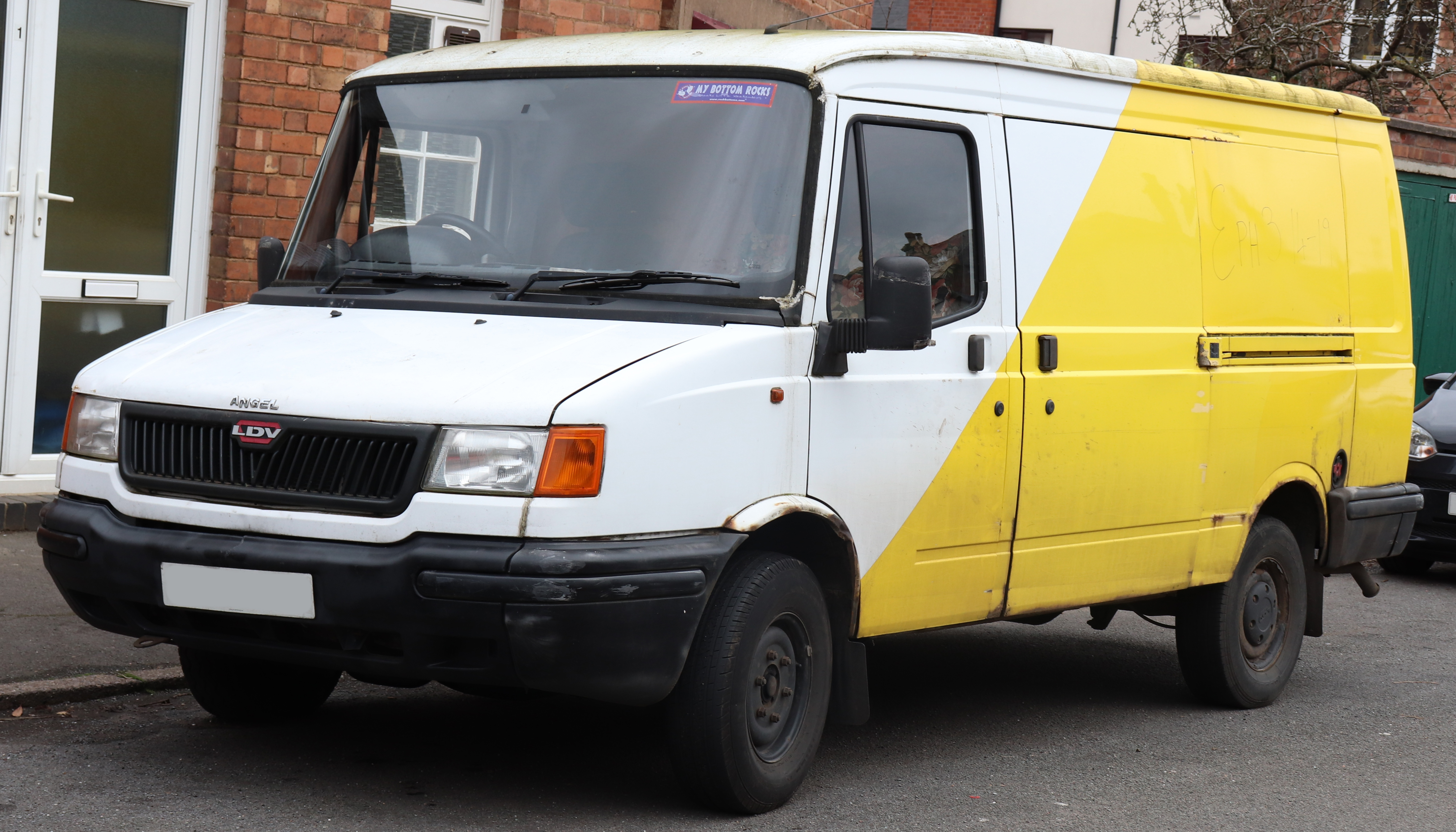 2002 LDV 400 Convoy Diesel SWB 2.4 Front Taken in Leamington Spa